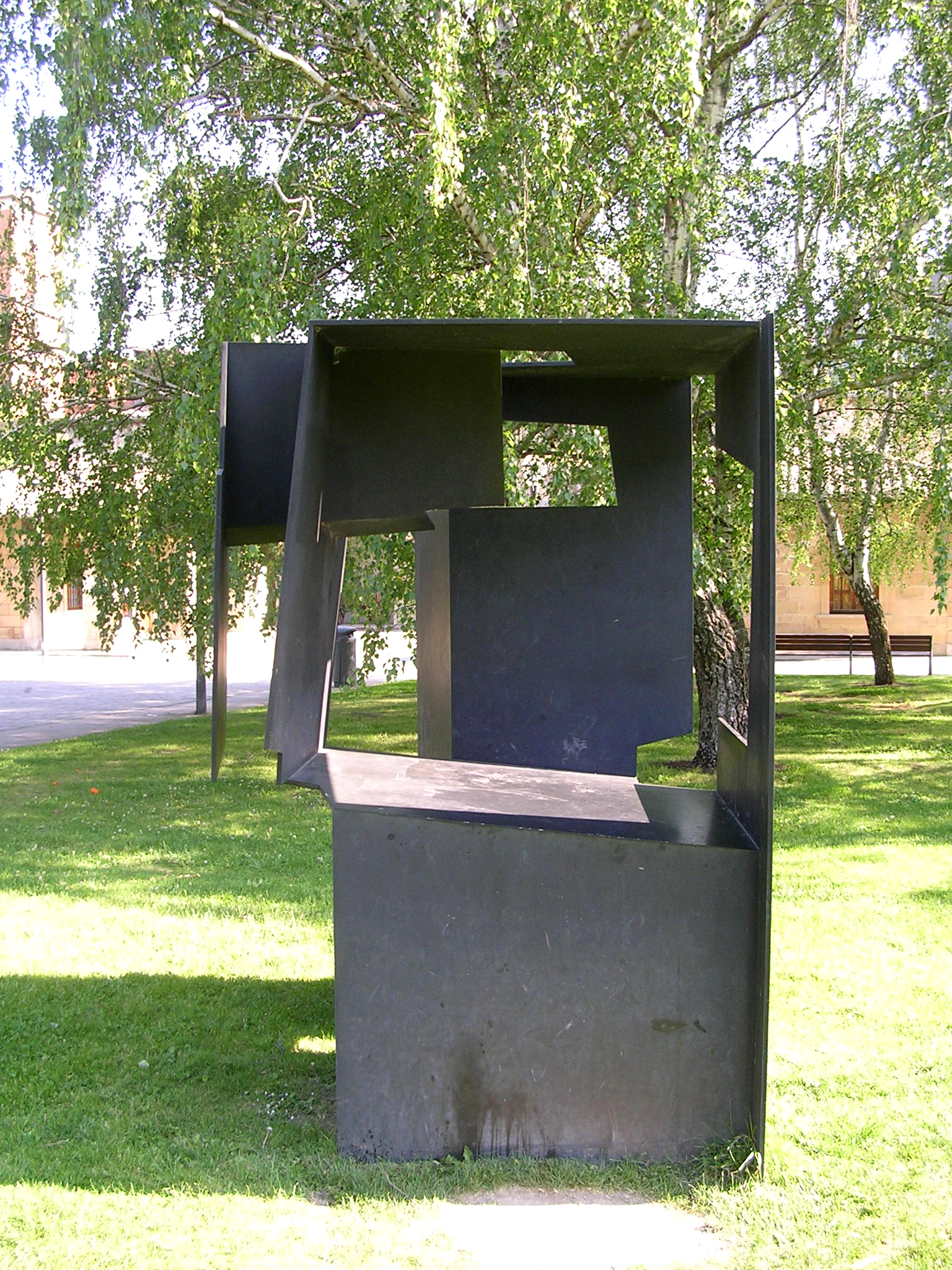 “Portrait of an armed sordier called Odiseo”, steel sculpture by Jorge Oteiza in Pamplona, inside the Citadel. Designed in 1975. “Odiseo izeneko gudari armatu baten erretratua”, Jorge Oteizaren altzairuzko eskultura Iruñean Ziudadela barnean. 1975Ean diseinatua.